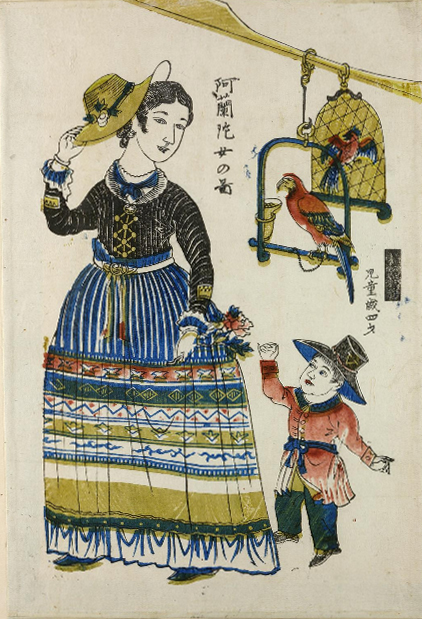 colored by stencil print(kappazuri)